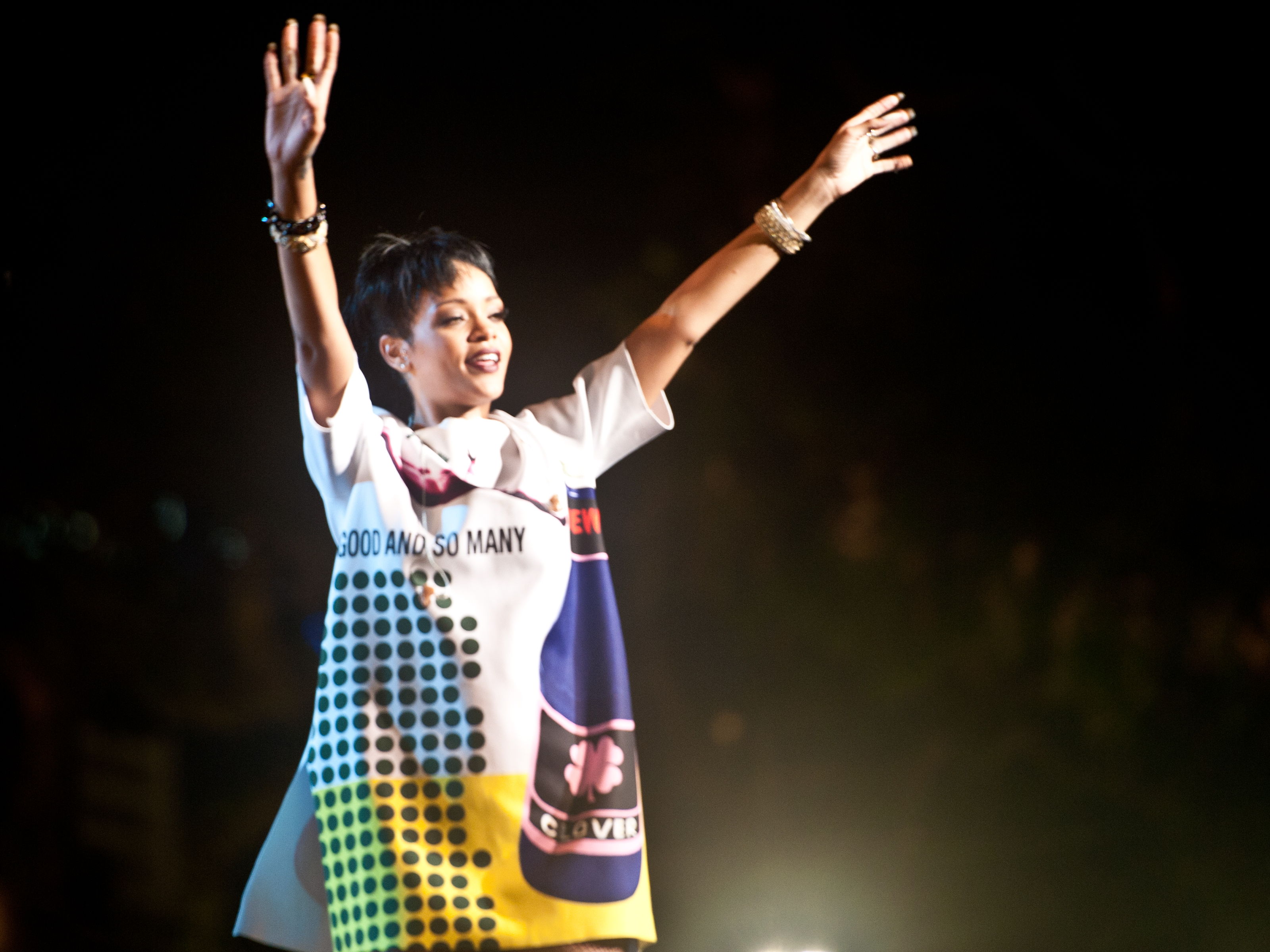 Rihanna in Singapore 2013.